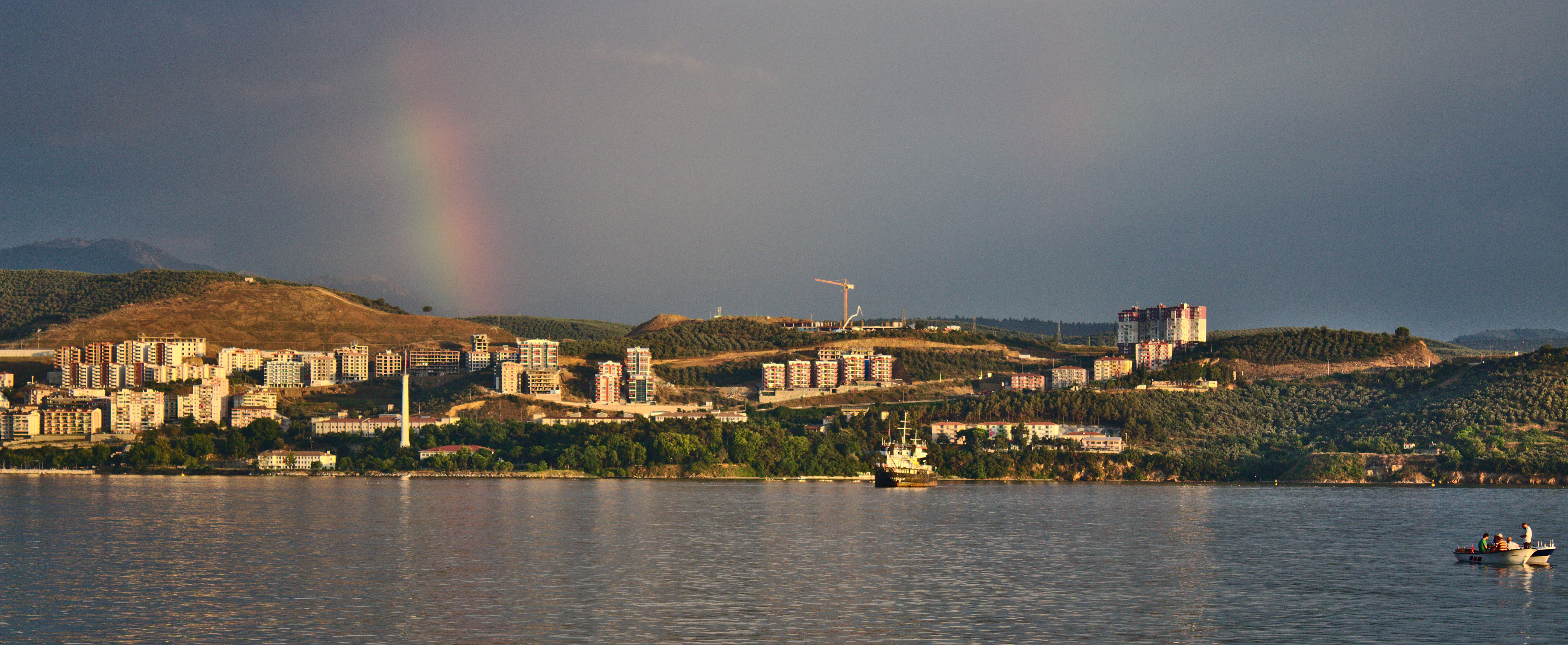 This is a panorama of the south-west part of Gemlik, taken from the cafe at the position : 40°26'37.8"N 29°08'07.3"E